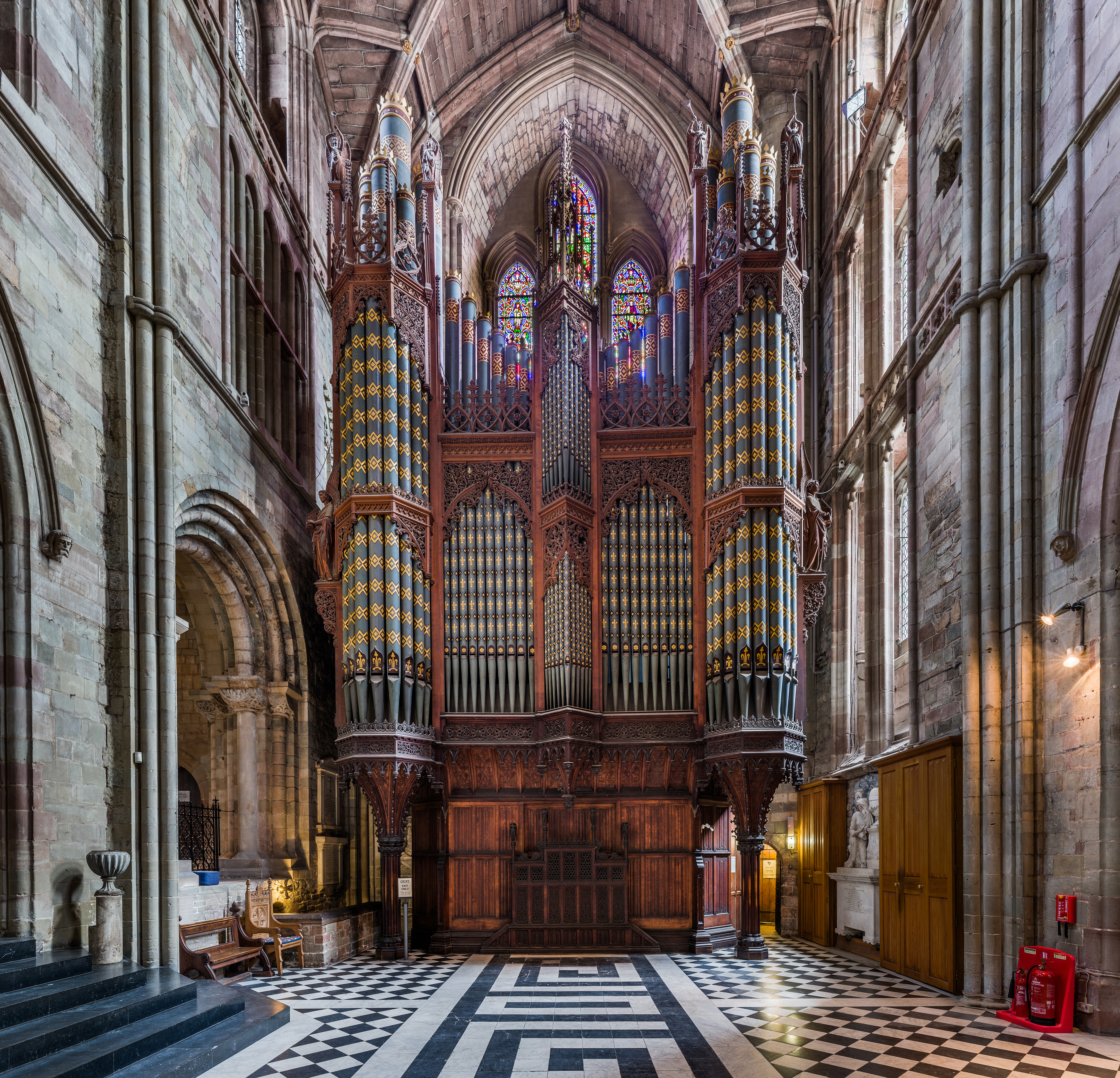 The organ in the South Transept of Worcester Cathedral, Worcestershire, England.